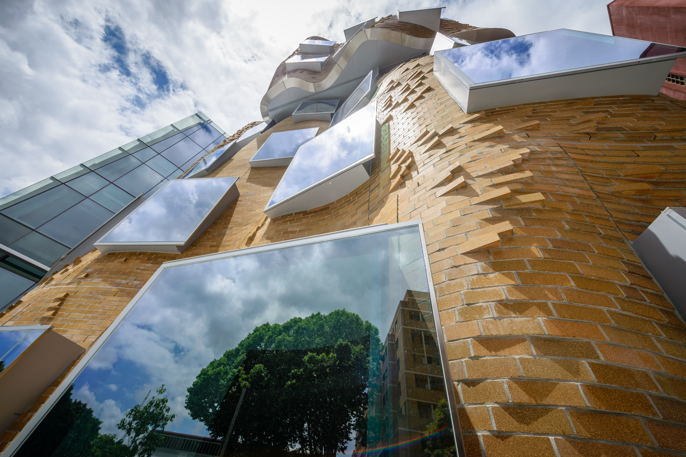 External view of the newest of Frank Gehry's Buildings the Dr Chau Chak Wing Building for the UTS Business School in Sydney.